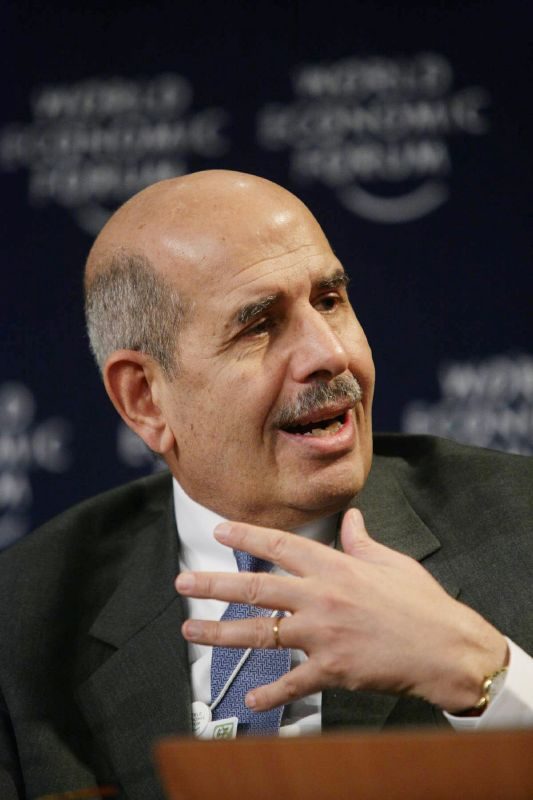 DAVOS/SWITZERLAND, 25JAN07 - Mohamed M. ElBaradei, Director-General, International Atomic Energy Agency, Vienna, captured during the session 'Stopping the Spread of Nuclear Weapons' at the Annual Meeting 2007 of the World Economic Forum in Davos, Switzerland, January 25, 2007. Copyright by World Economic Forum by Remy Steinegger